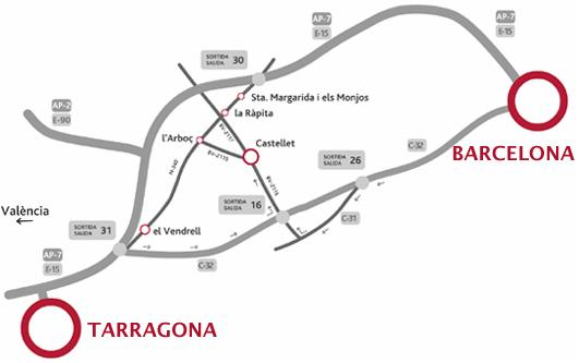 localizar castellet